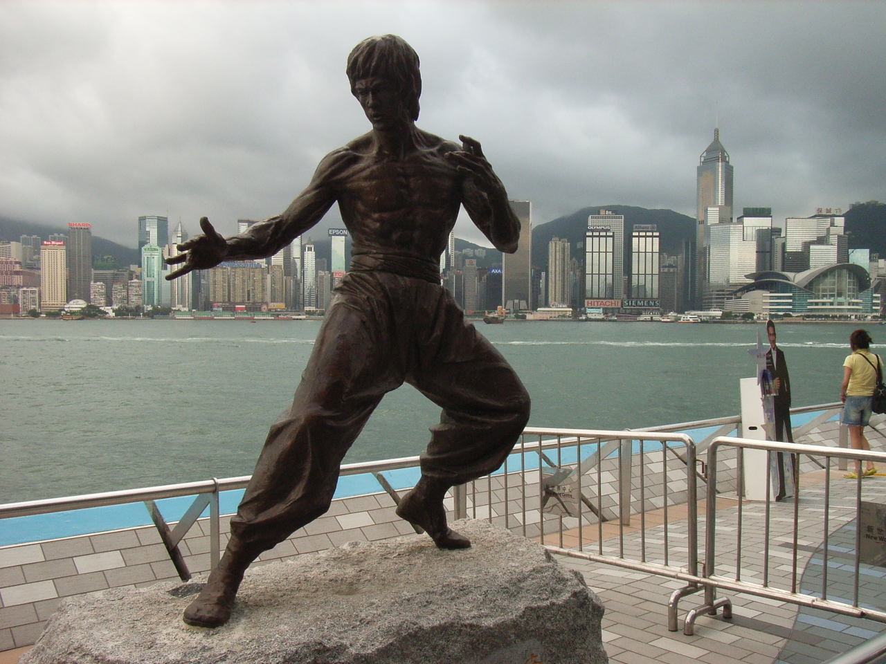 The Bruce Lee statue in Hong Kong is a memorial figure of deceased martial artist, Bruce Lee. The 2.5 metre bronze statue by artist Cao Chong-en was erected along the Avenue of Stars attraction near the waterfront at Tsim Sha Tsui.